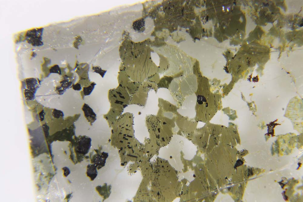 Greenish plates of the very rare mineral zincochromite from the type locality (Srednyaya Padma, Karelia, Northern Region, Russian Federation) and one of the very few known localities worldwide, embedded in an acrylic bearer.